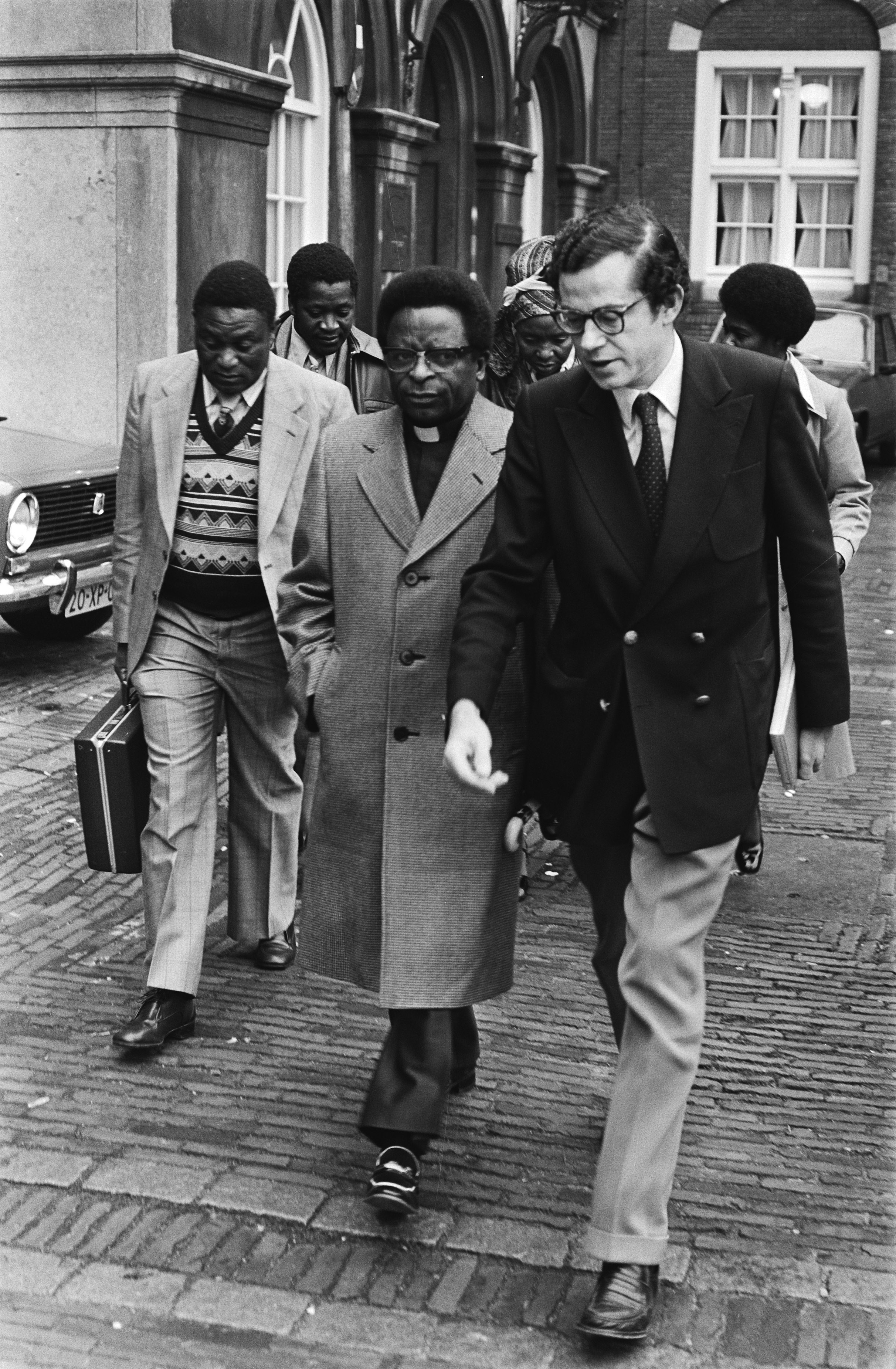 Bishop Abel Muzorewa of Rhodesia meets Dutch MPs, including Gualtherie van Weezel, at the Binnenhof in The Hague, Netherlands